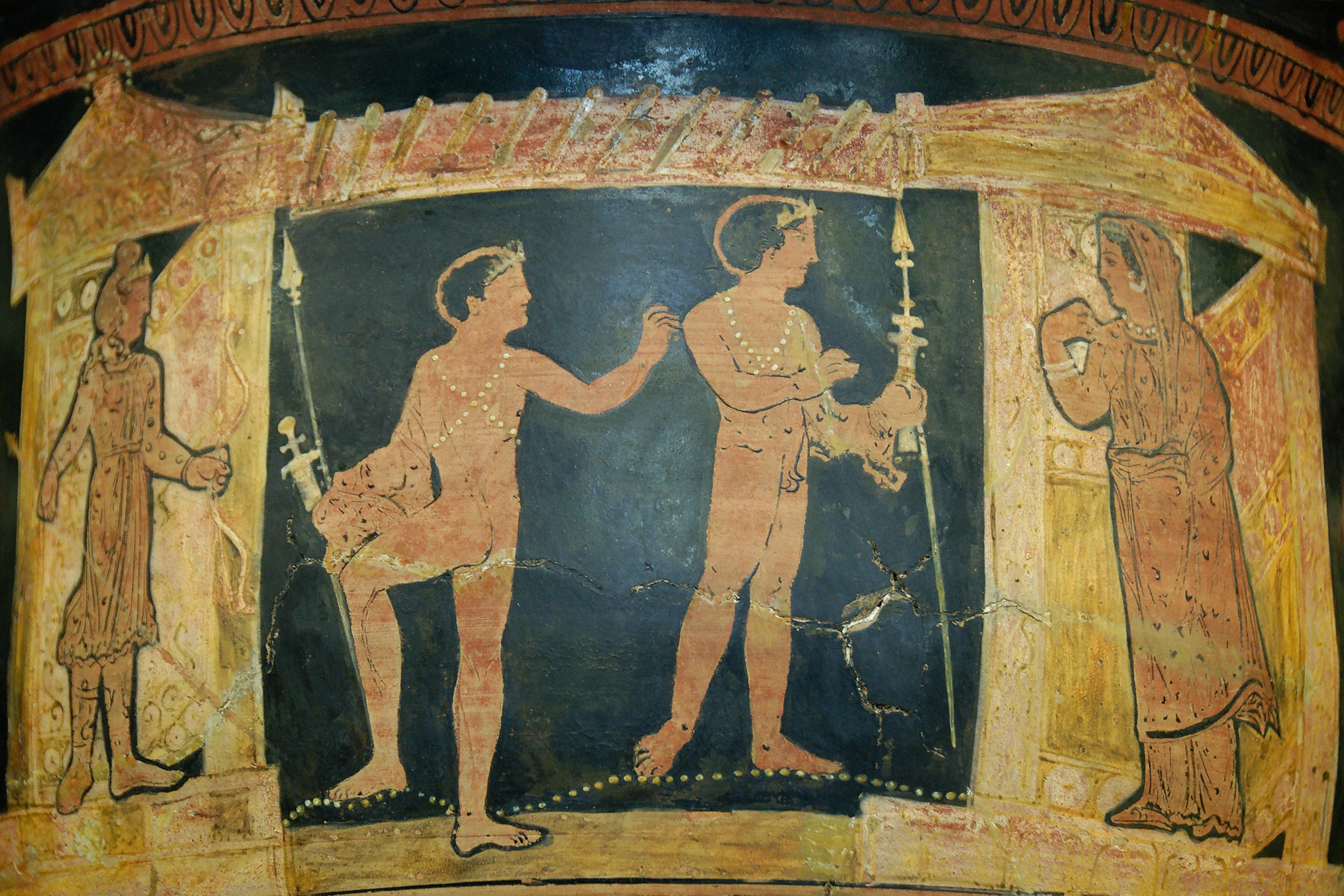 Orestes and Pylades in Tauris. Detail from a Campanian red-figure krater, ca. 330 BC–320 BC. From Italy.